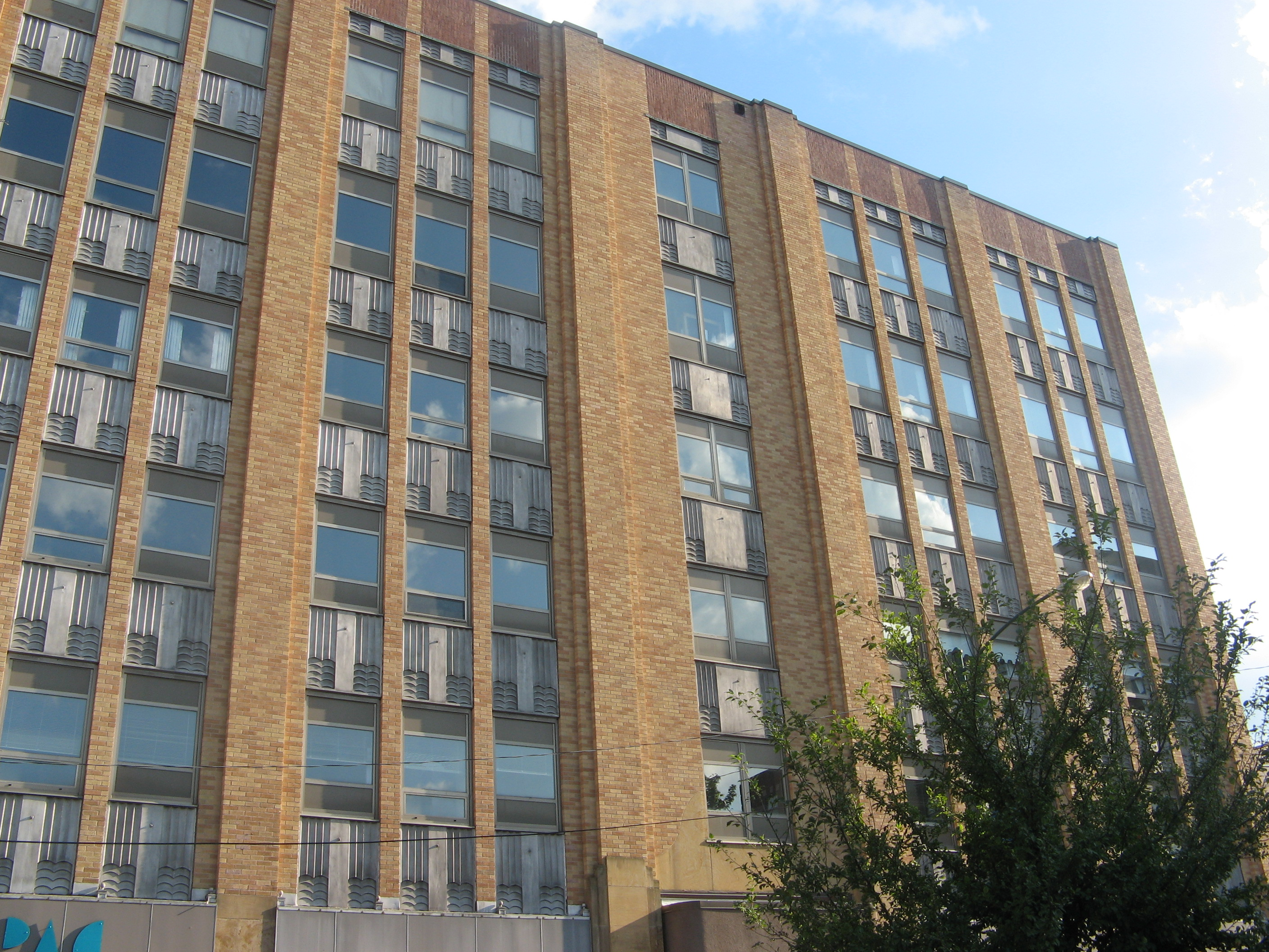 Building in the downtown area on Marilyn Horn Way, Bradford, PA, USA Pitt Bradford's Seneca Building, built in 1932 in downtown Bradford, houses the school's Office of Outreach Services and the Center for Rural Health Practice. It is also planned to house the Marilyn Horne Exhibit Center after a $4.8 million renovation to the first floor that will feature a rotating display from the university's Marilyn Horne Archive. The building is also home to the Bradford Creative and Performing Arts Center. ref